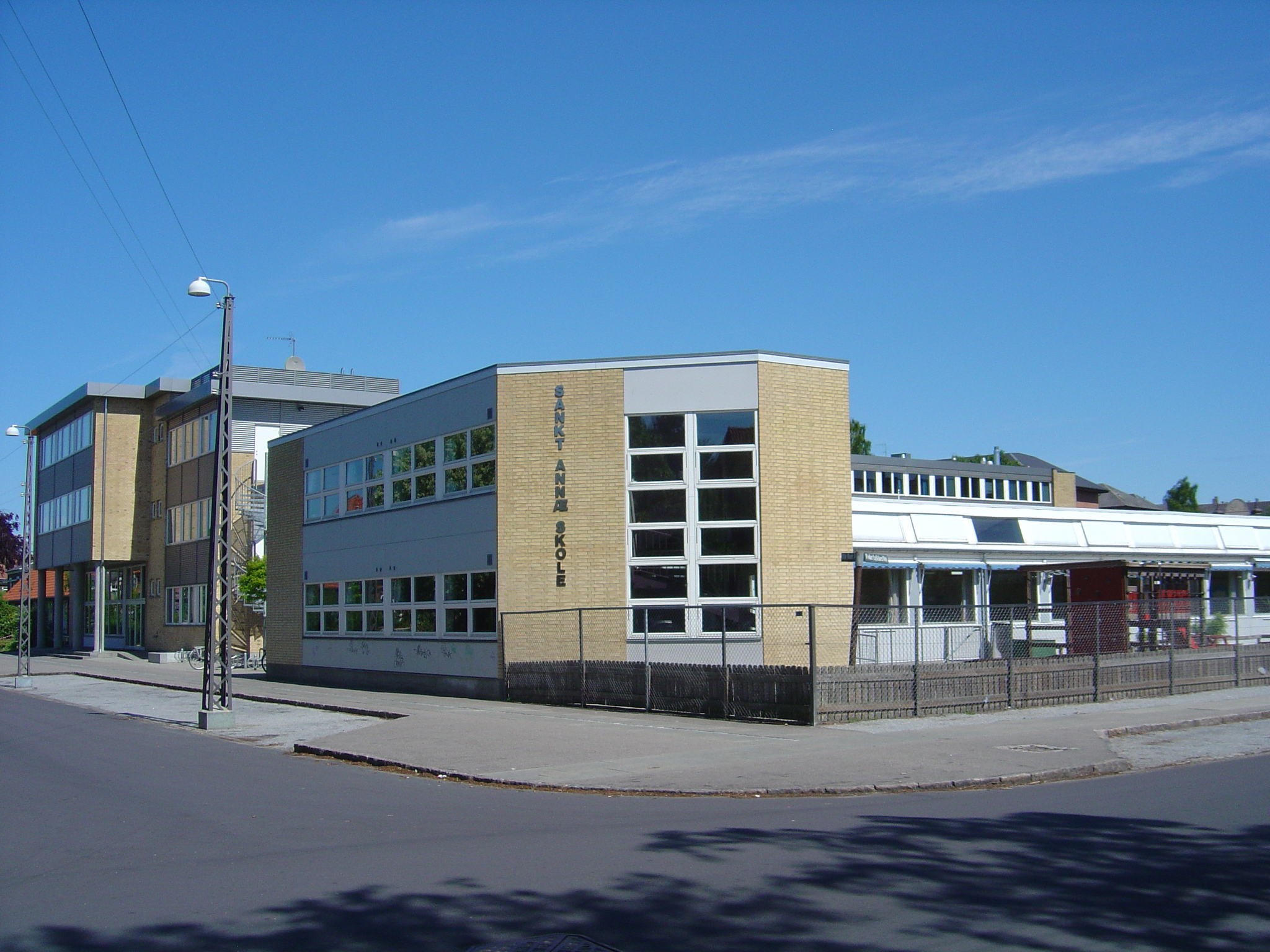 Sankt Annæ Skole - a Danish private school seen her with the main entrance on the left, the buildings for the small classes in the middle and the building for the larger classes in the far back right side. Seen from the southwest side, at the cross of Otto Ruds Vej/Peder Lykkes Vej.